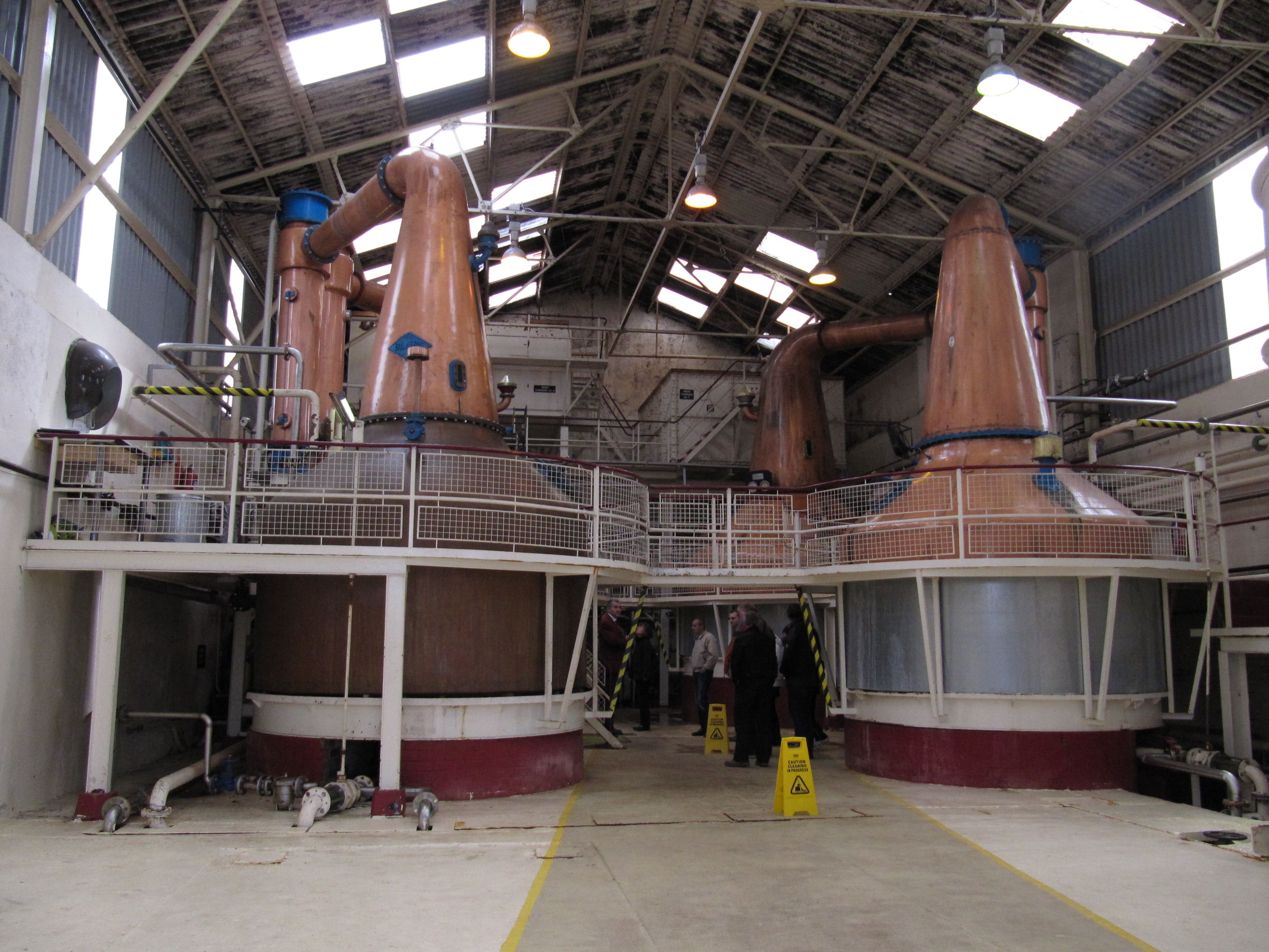 The pot stills of Ben Nevis distillery, Fort William, Scotland, UK